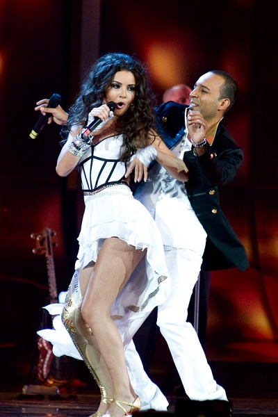 Aysel & Arash during Eurovision 2009.